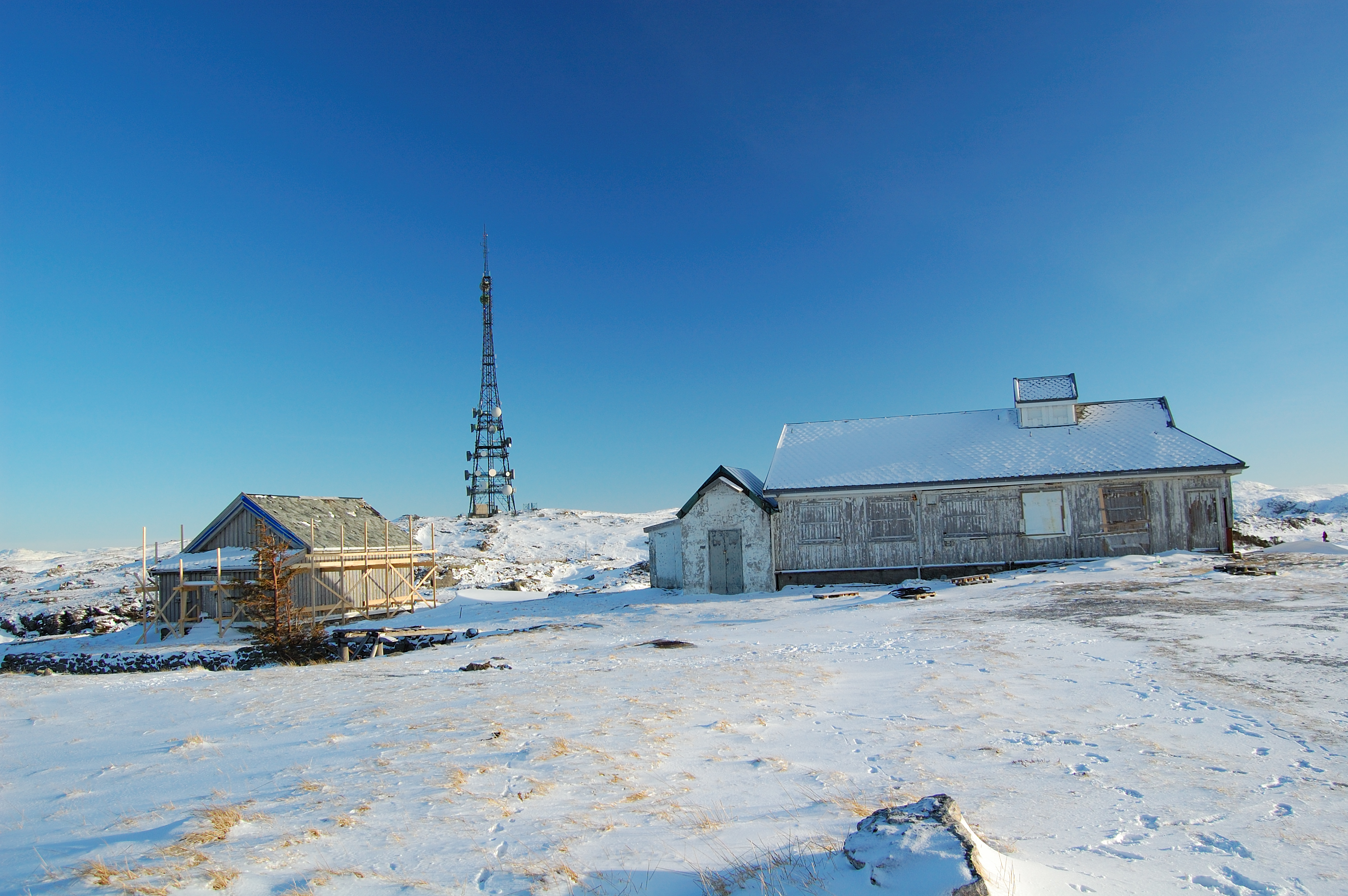 Buldings and a tower standing atop the Rundemanen mountain in Bergen, Norway.